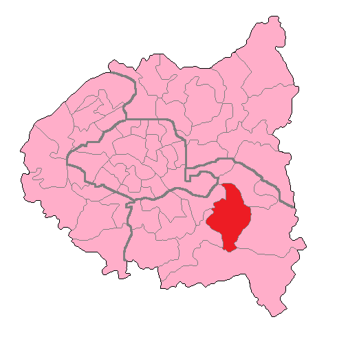 Map of Val-de-Marne's 1st constituency shown within Ile-de-France (Petite Couronne)